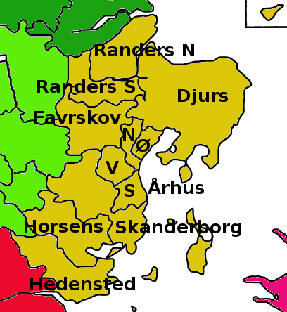 The Østjyllands Storkreds constituency in Denmark